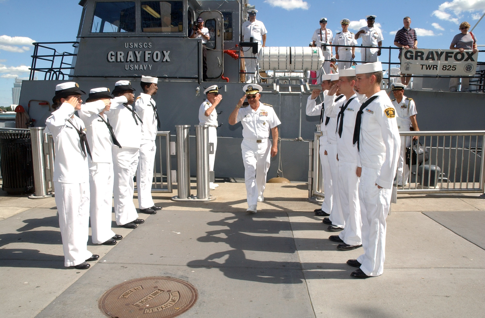 DETROIT (July 11, 2007) - Vice Adm. Terrance Etnyre, commander of Naval Surface Force, U.S. Pacific Fleet, salutes the Sea Cadets performing as sideboys of the U.S. Naval Sea Cadet training ship Grayfox (TWR 825), following an hour long cruise along the Detroit River. Grayfox is providing tours and brief underway periods as part of Detroit Navy Week. Detroit Navy Week is one of 26 Navy Weeks planned across America in 2007. Navy Weeks are designed to show Americans the investment they have made in their Navy and increase awareness in cities that do not have a significant Navy presence. U.S. Navy photo by Mass Communication Specialist 1st Class Jesse Sherwin (RELEASED)